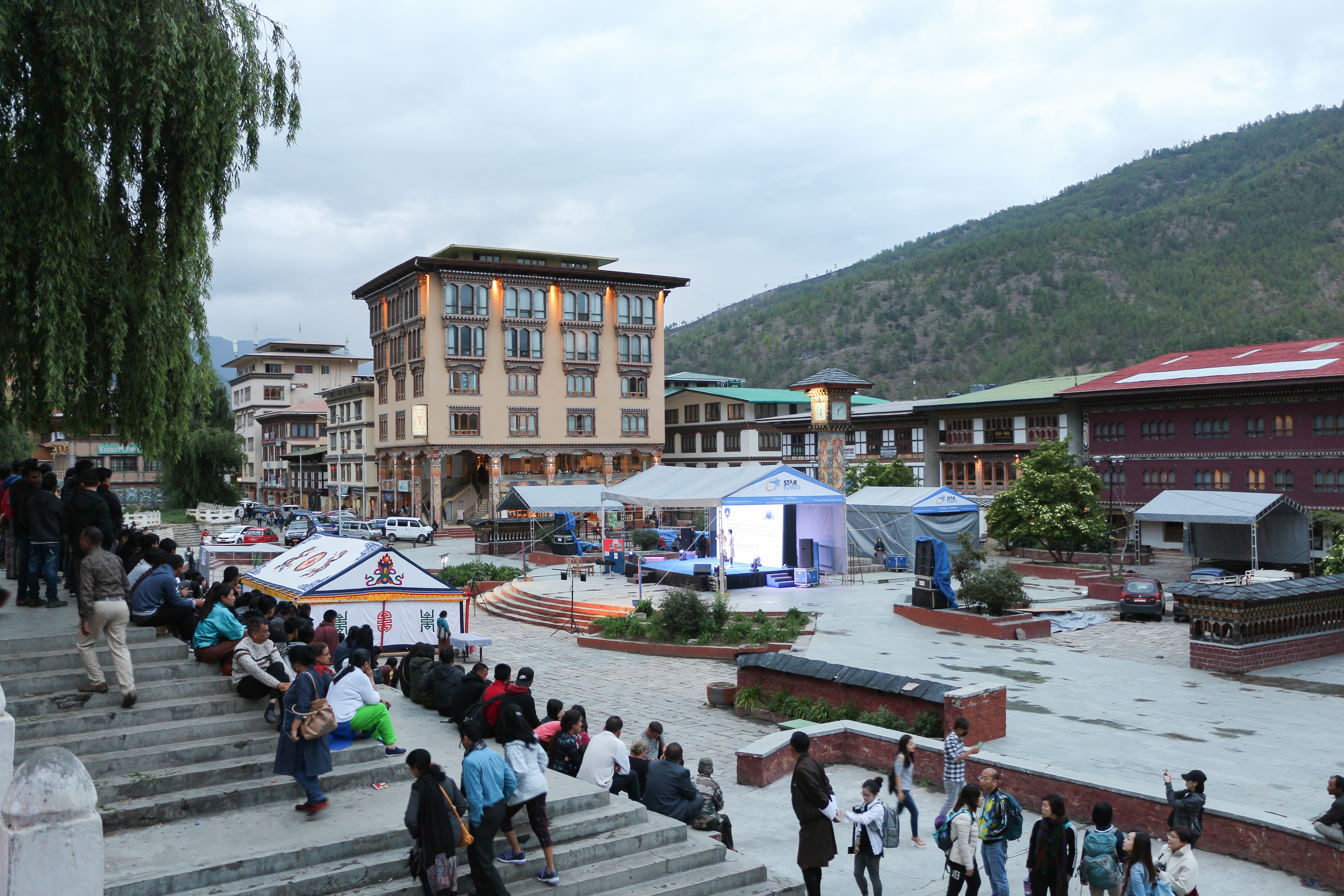 Clock Tower Square, Thimphu, Bhutan